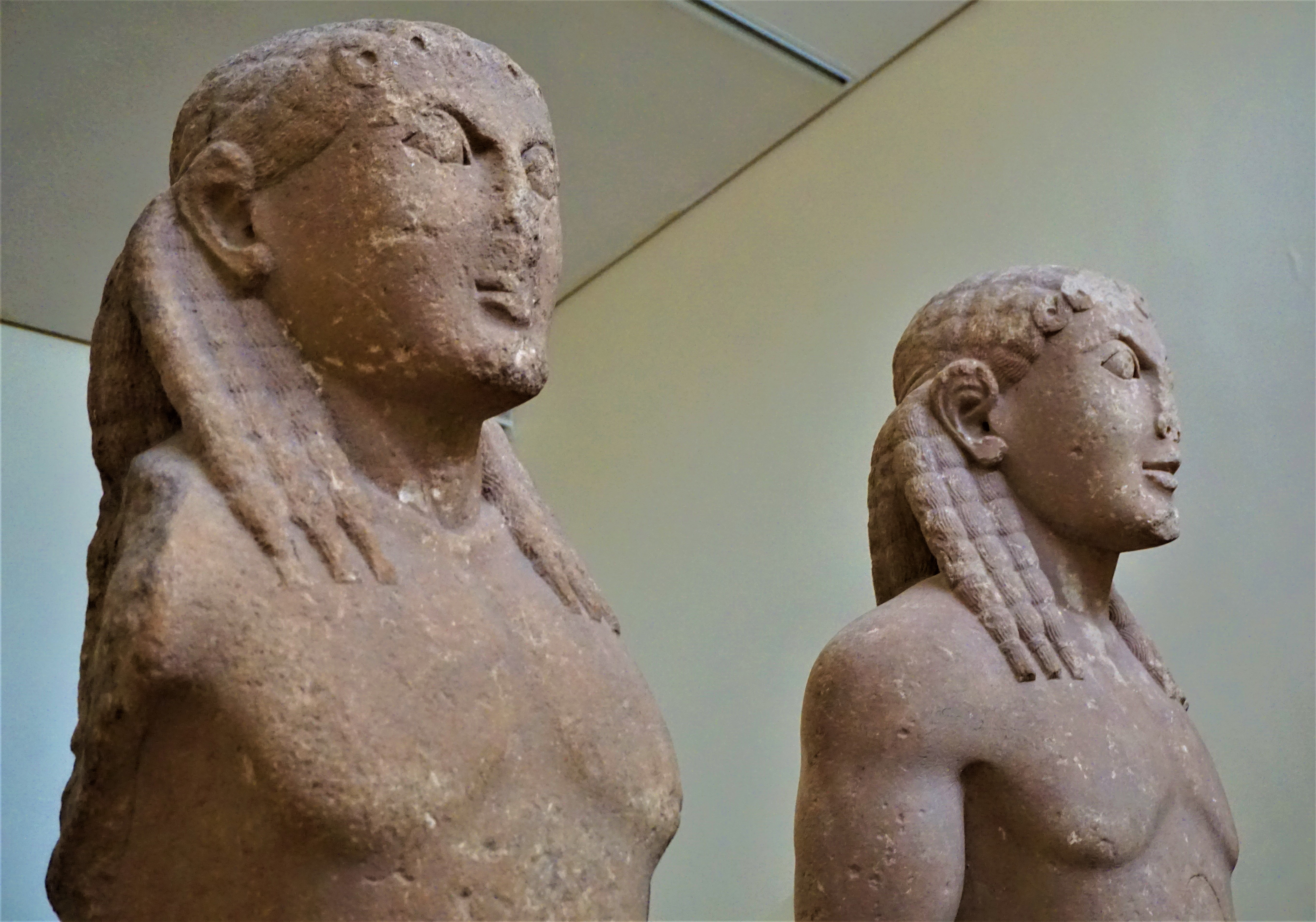 Kleobis and Biton - Delphi Archaeological Museum by Joy of Museums